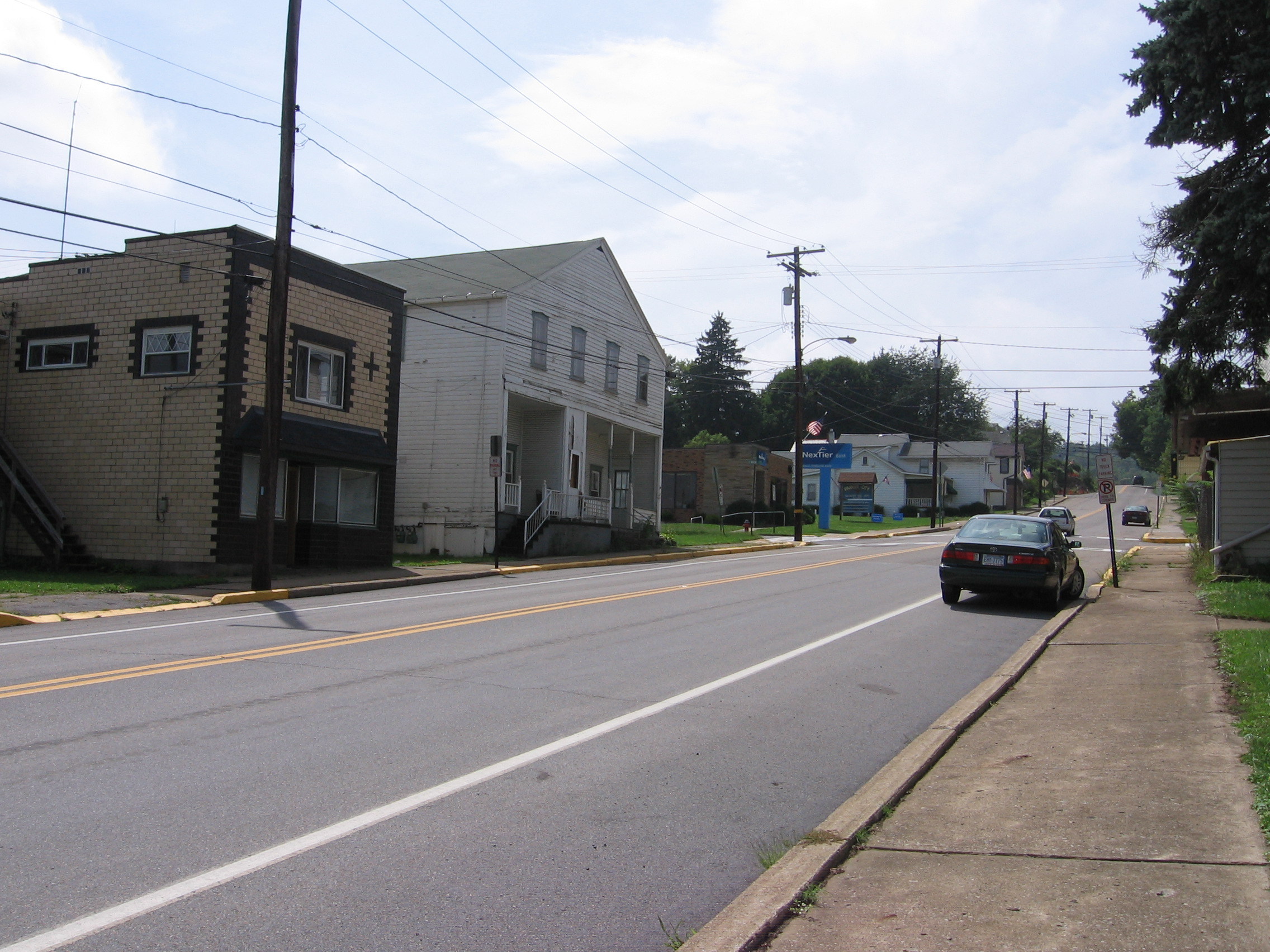 Downtown view of Parker, Pennsylvania. Photo taken by Mvincec on 22 August 2007.